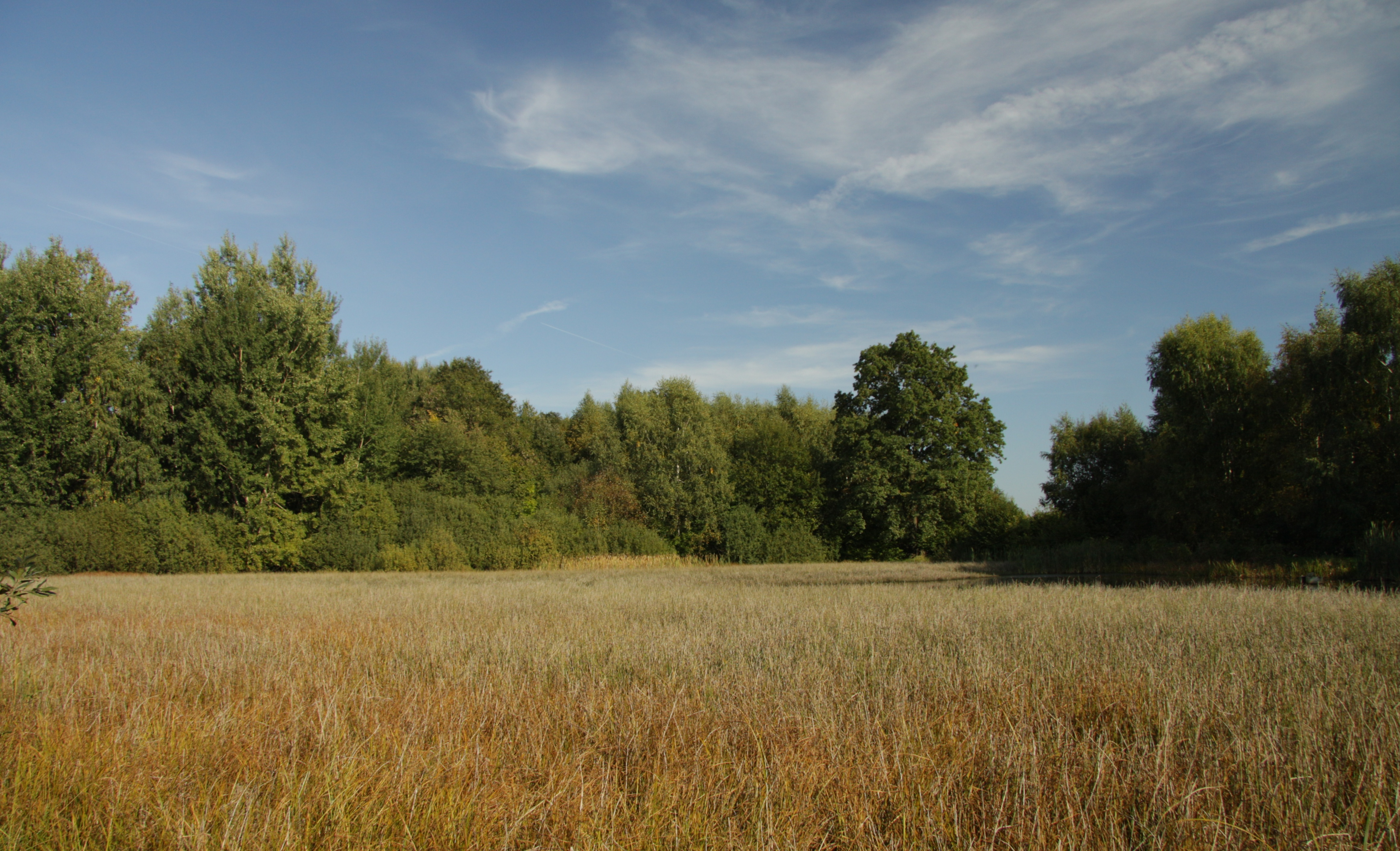 Natural monument Zeman in Tábor District, Czech Republic - Google Maps - Google Earth